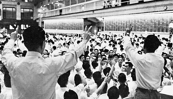 Open outcry circa 1960